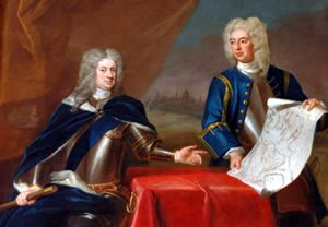 The Duke of Marlborough studying a plan of Bouchain with Colonel Armstrong